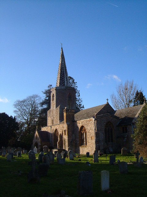 Pitminster church. Church of St Andrew and St Mary, Pitminster from south-east; unusual for the area in having a spire. Full details at